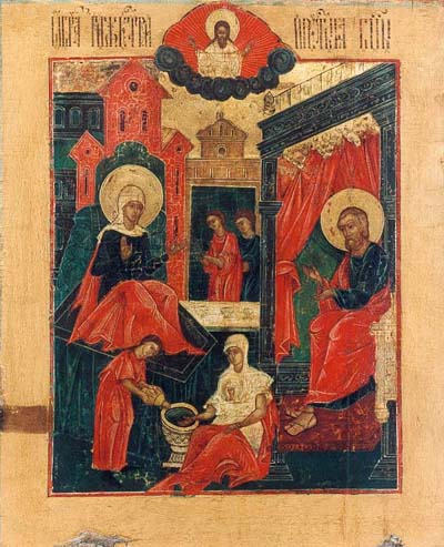 Russian icon, 18th century. Scanned from a calendar. As any Eastern Orthodox icon, and as well as any picture created more than 200 years ago, is in Public Domain.